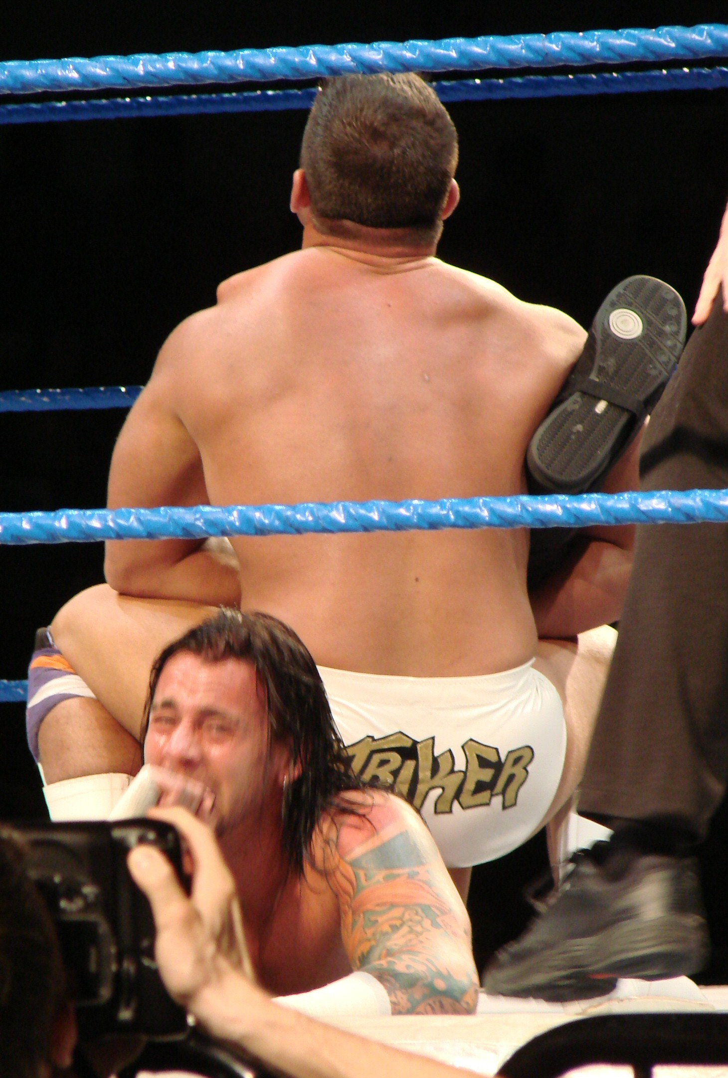 Matt Striker and CM Punk. Assembly Hall.